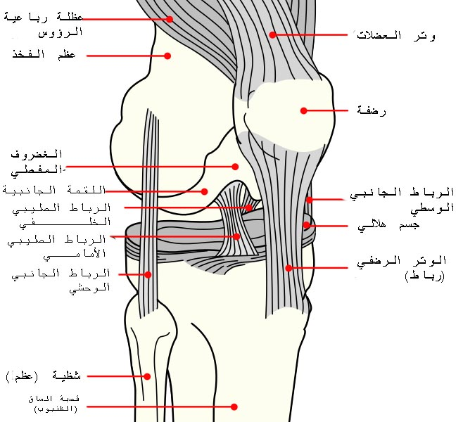 Right knee, seen from an angle between anteriorly and laterally.